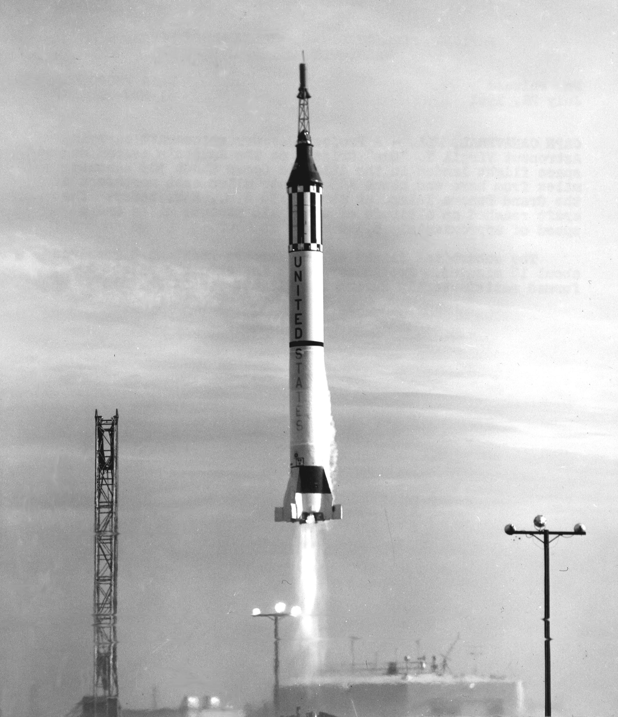 Launch of flight Mercury-Redstone 4 (MR-4), or Liberty Bell 7, on July 21, 1961, carrying astronaut Virgil "Gus" Grissom.